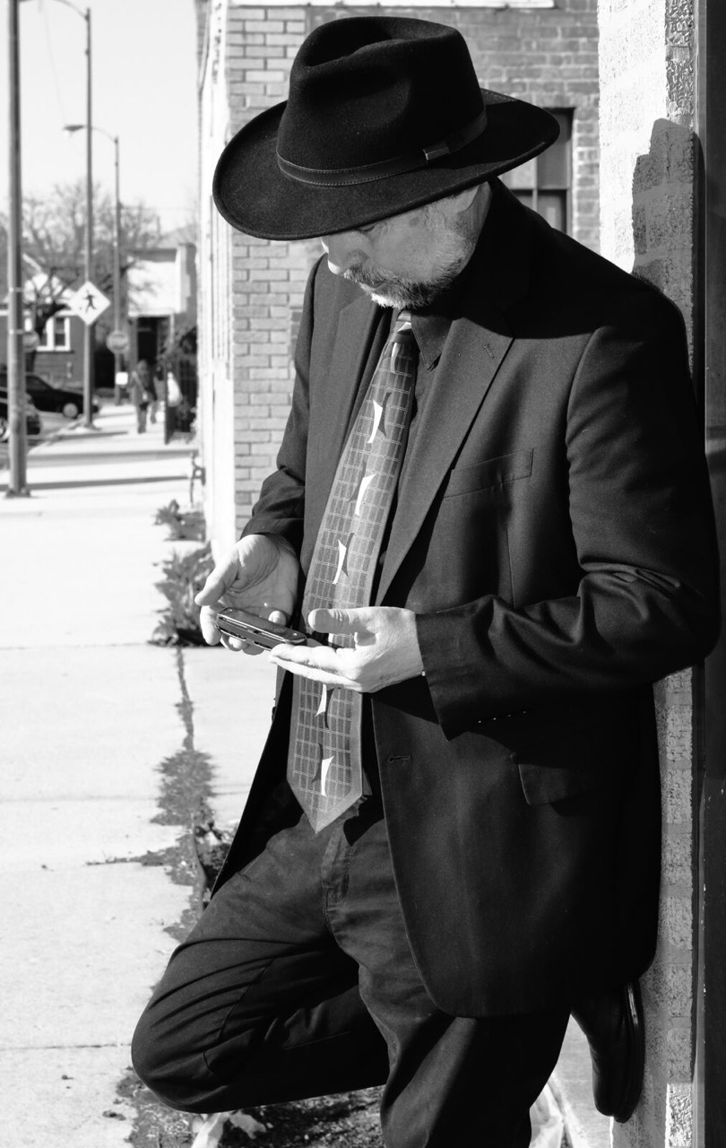 Mississippi Heat band leader Pierre Lacocque in front of Delmark Records' Riverside Studio in Chicago, March 2016.